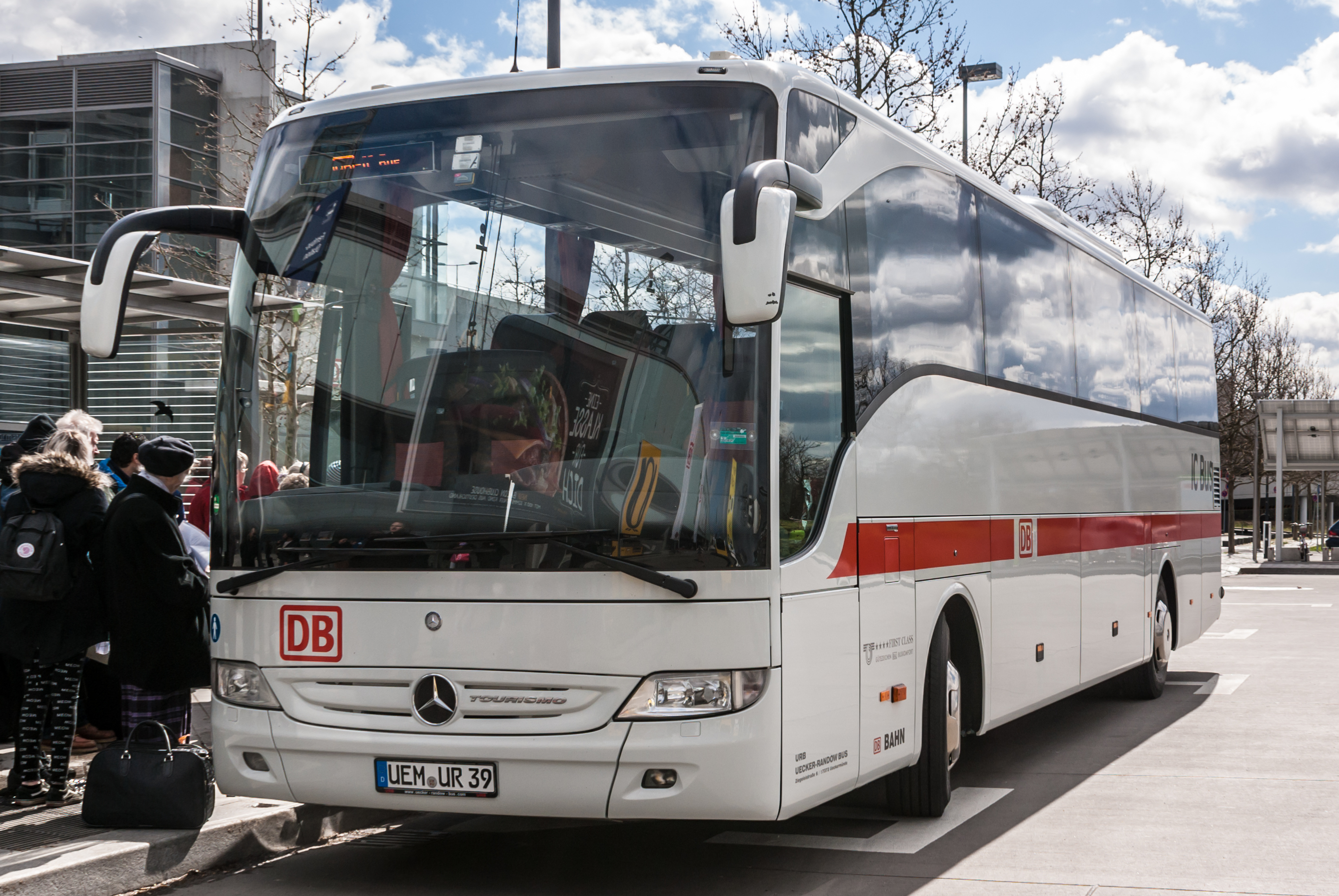 Mercedes-Benz Tourismo in IC Bus livery at Berlin-Südkreuz